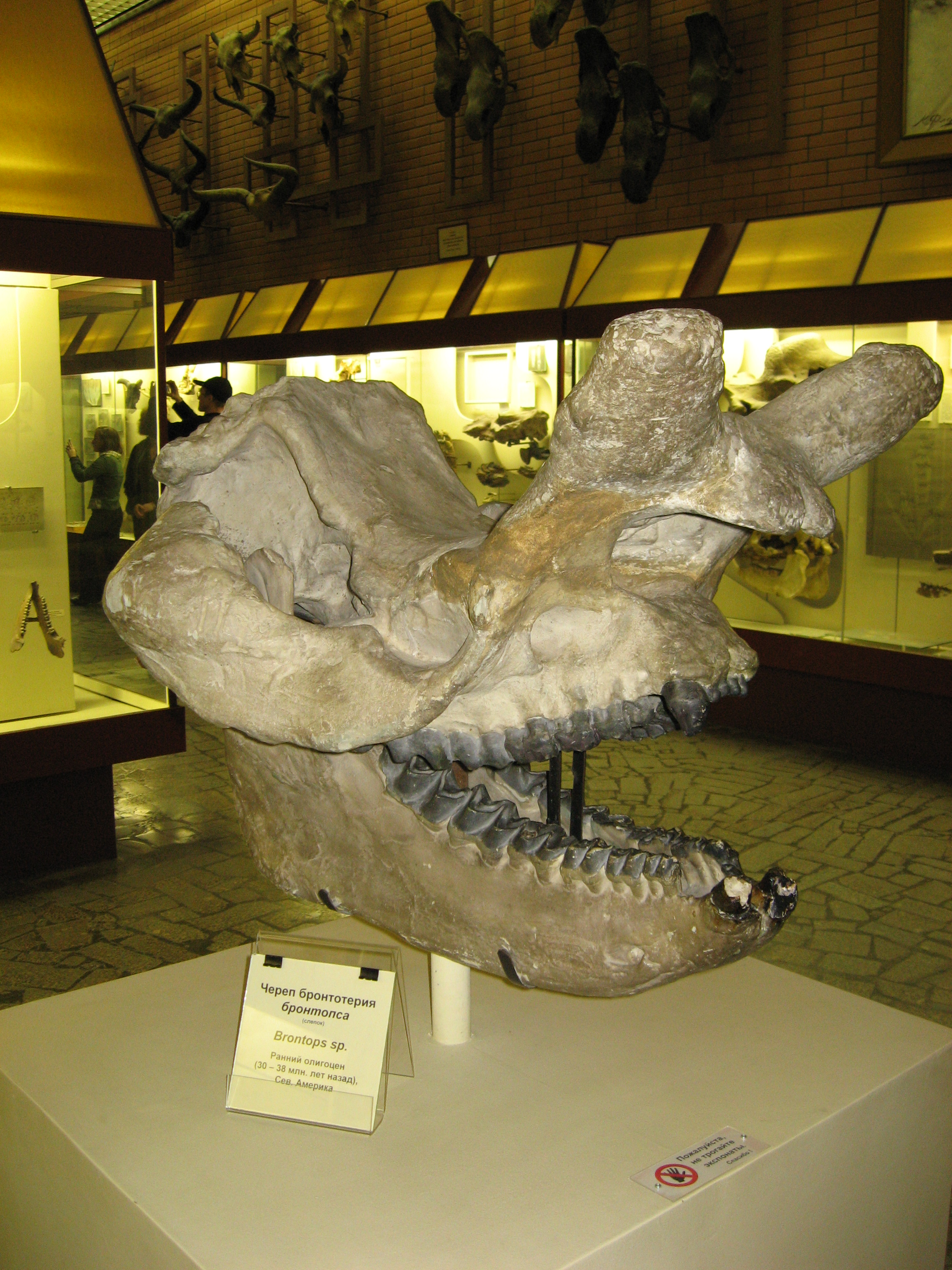 Skull of Brontotherium (Brontops sp.) in Moscow Paleontological Museum